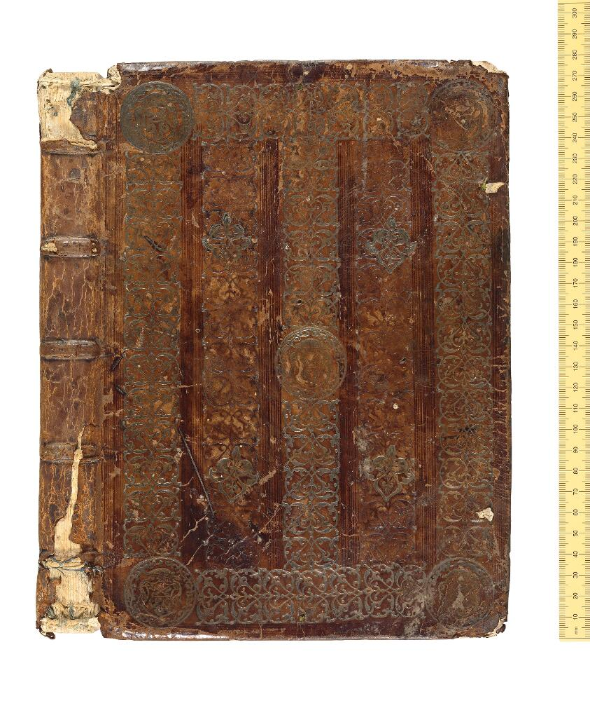 One of the earliest French gold-tooled bindings. French (Paris), c.1514. Brown calfskin, tooled in gold and blind with three Italianate tools: a pair of circles, a leaf tool, arms of Cardinal Francesco Soderini (1453–1524) in circle, in centre, and corners. One of a group of bindings associated with the introduction of gold tooling from Italy to France.